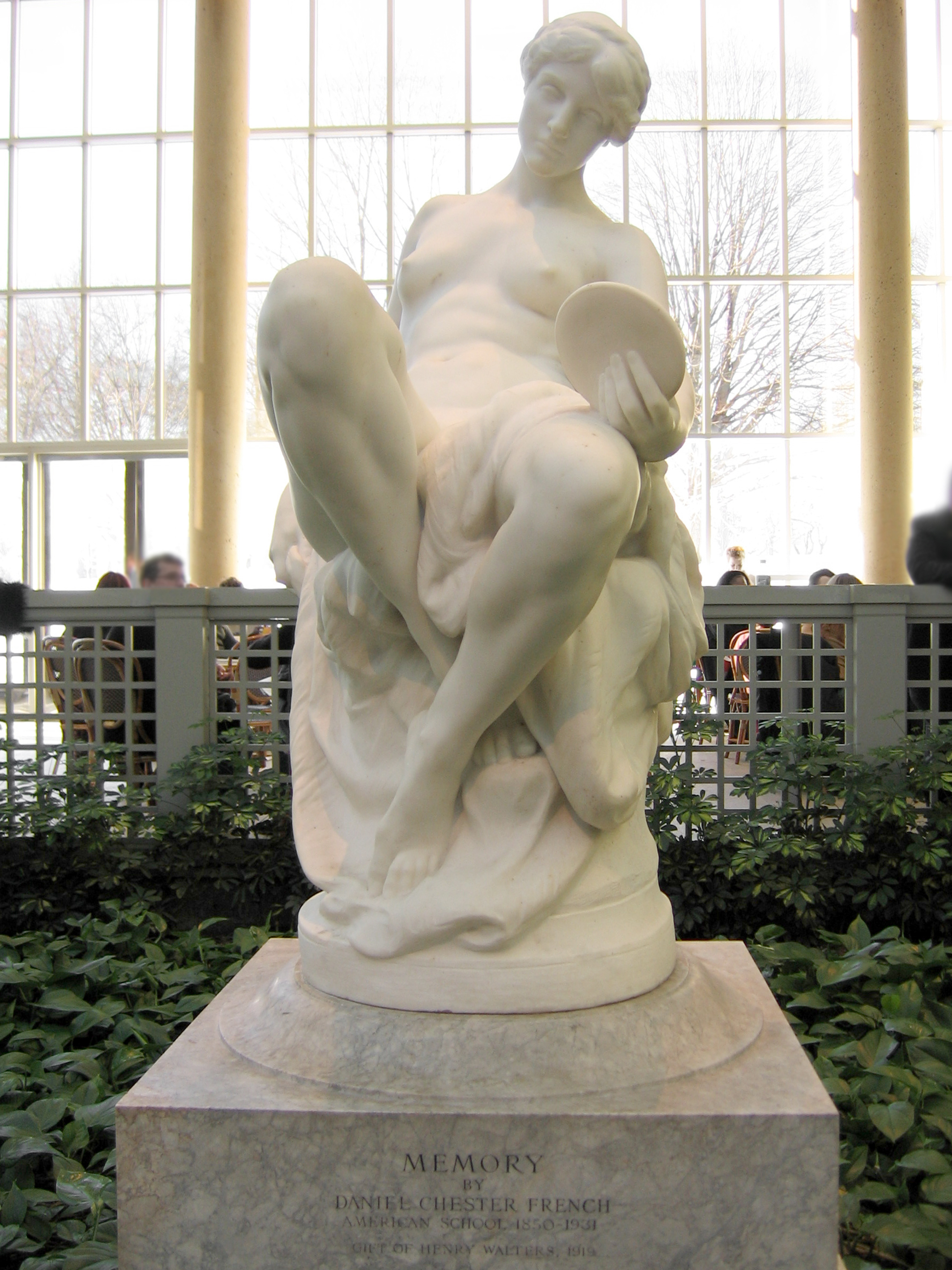 Memory, original bronze 1886-87, revised 1909; this carving in marble by the Piccirilli Brothers, 1917-19. Daniel Chester French (1850 - 1931). Metropolitan Museum of Art, New York City.